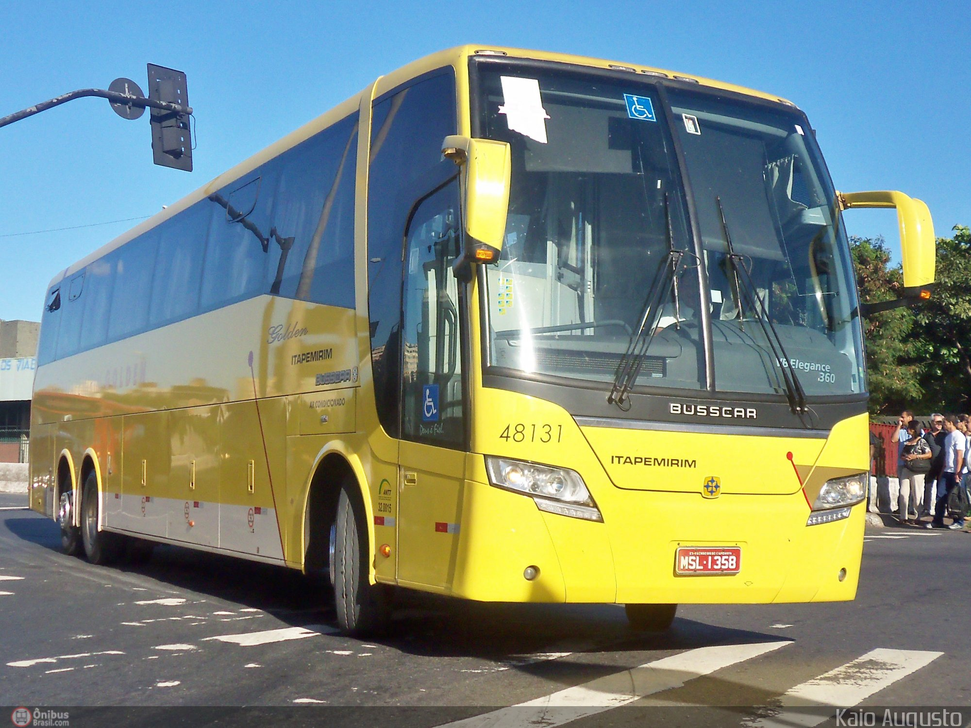 Busscar Vissta Buss Elegance 360 coach (reg. MSL-1358, #48131) with unknown 6x2 chassis in Brazil.